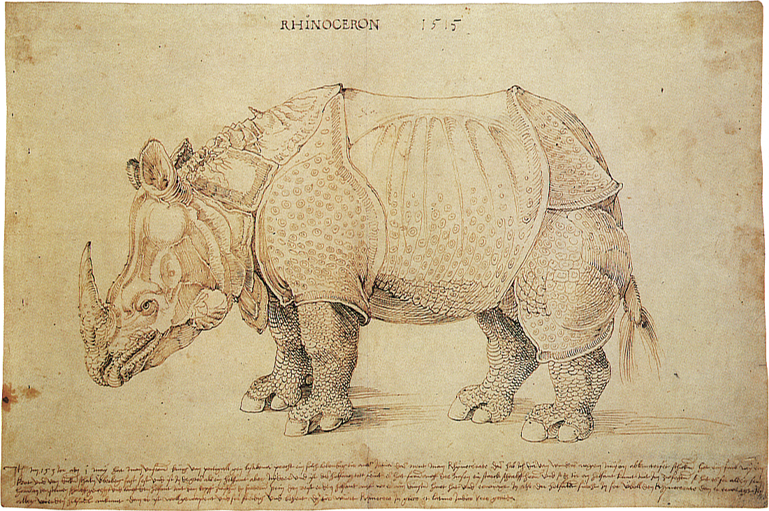 Scan of a book plate of an ink drawing of Dürer's Rhinoceros, created by Albrecht Dürer in 1515.